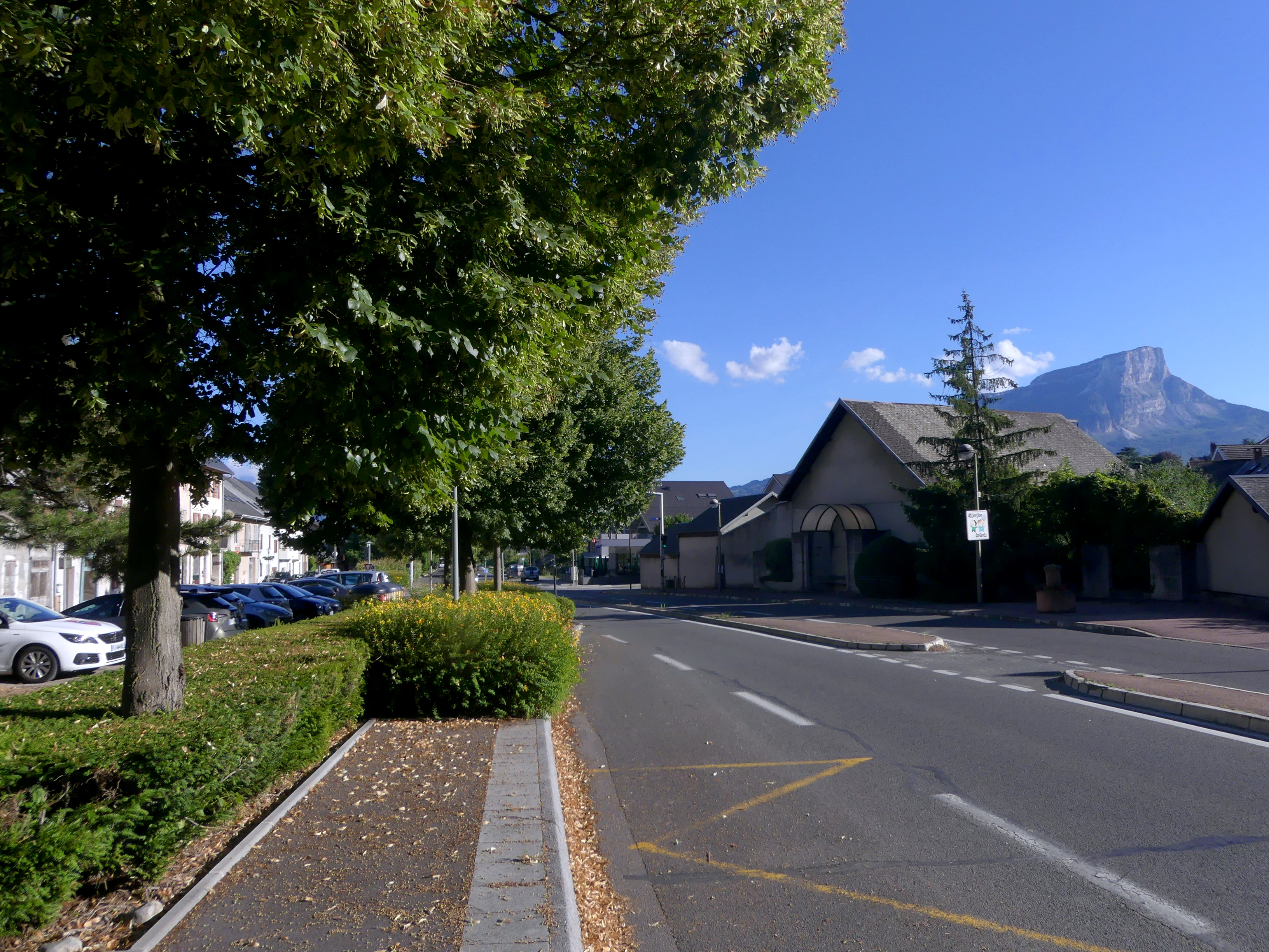 Sight of former Route nationale 6 national, nowadays Route départementale 1006, from Chambéry (a few kilometers behind) to Italy, in Saint-Jeoire-Prieuré locality centre, in Savoie, France.